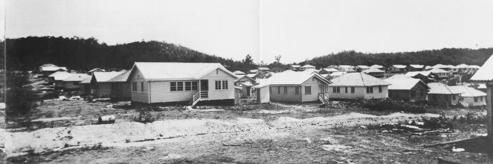 Italian housing project at Carina, Brisbane, 1952. The Queensland Housing Commission and Italian contractors built 1,000 houses at Carina under the (Commonwealth Sponsored) Imported Houses Scheme. The Italian partners were the firm Messrs. Legnami Pasotti of Brescia, Italy (Information taken from: Queensland. Housing Commission, Report of the Commissioner, 1952). This view is taken from the Western end of the estate on which 353 houses are under construction. The image forms a contiguous panoramic view with image number hch00008.